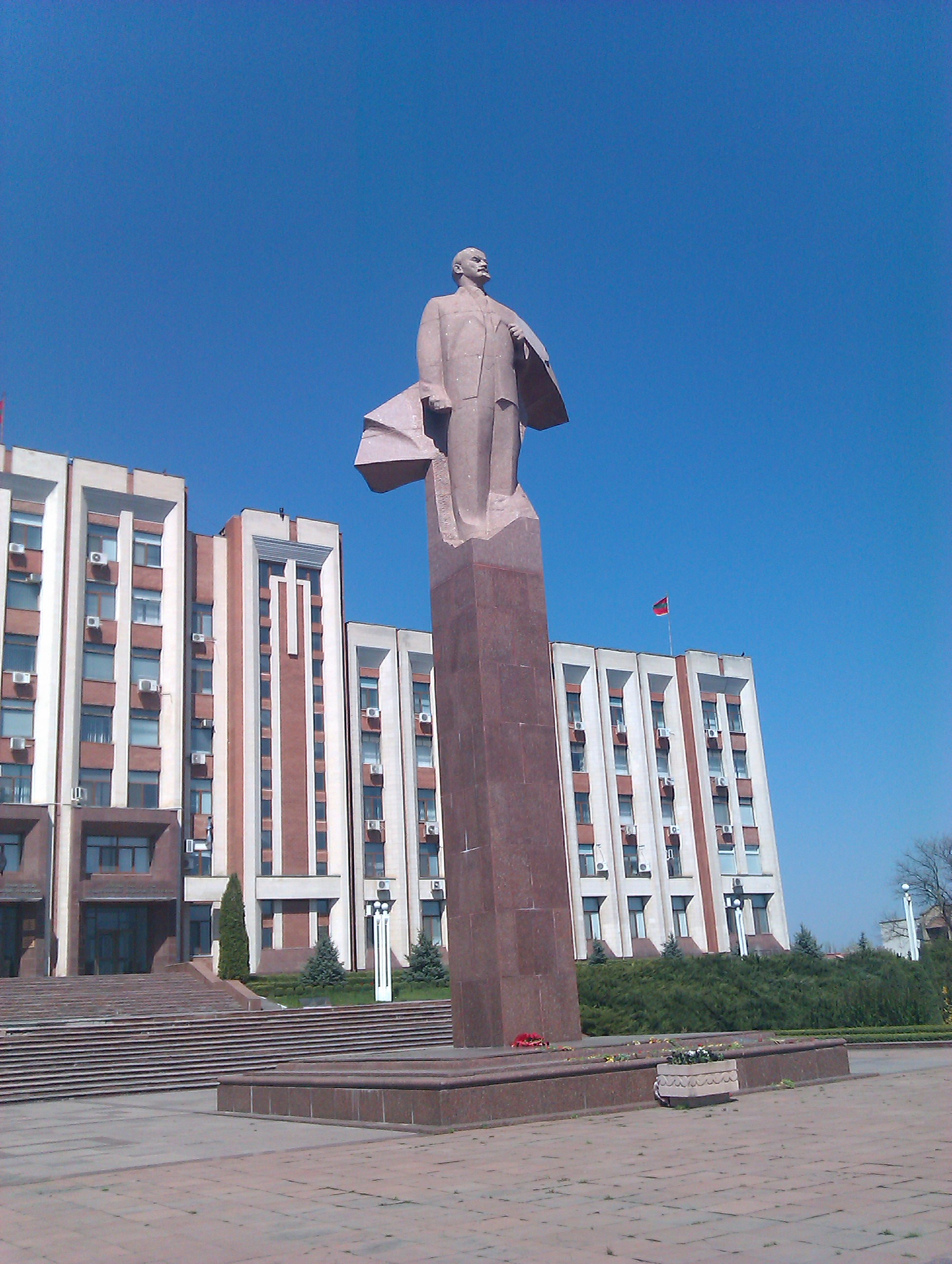 Statue of Lenin outside the Transnistrian Supreme Soviet in Tiraspol, Transnistria